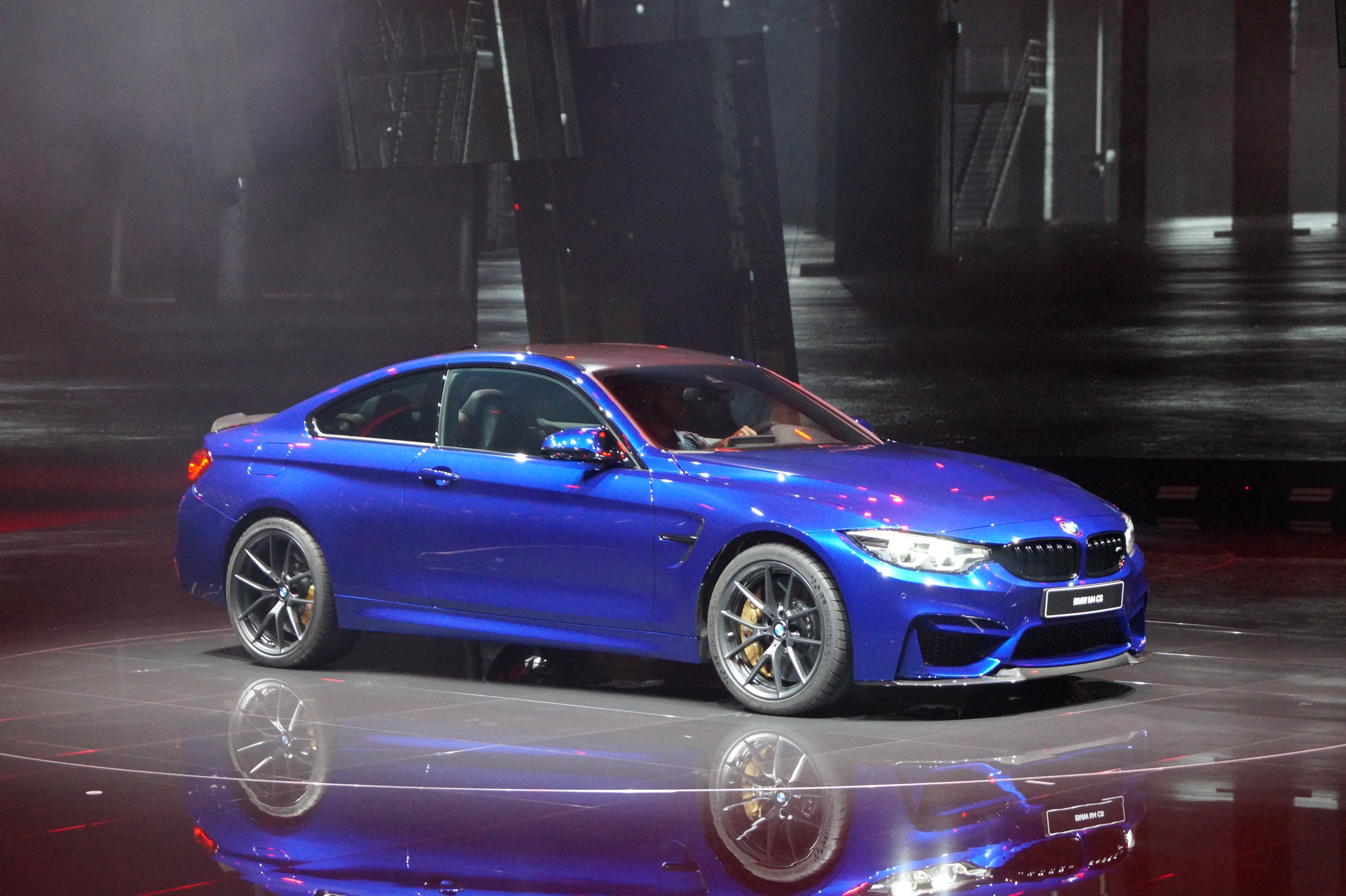 BMW at IAA 2017